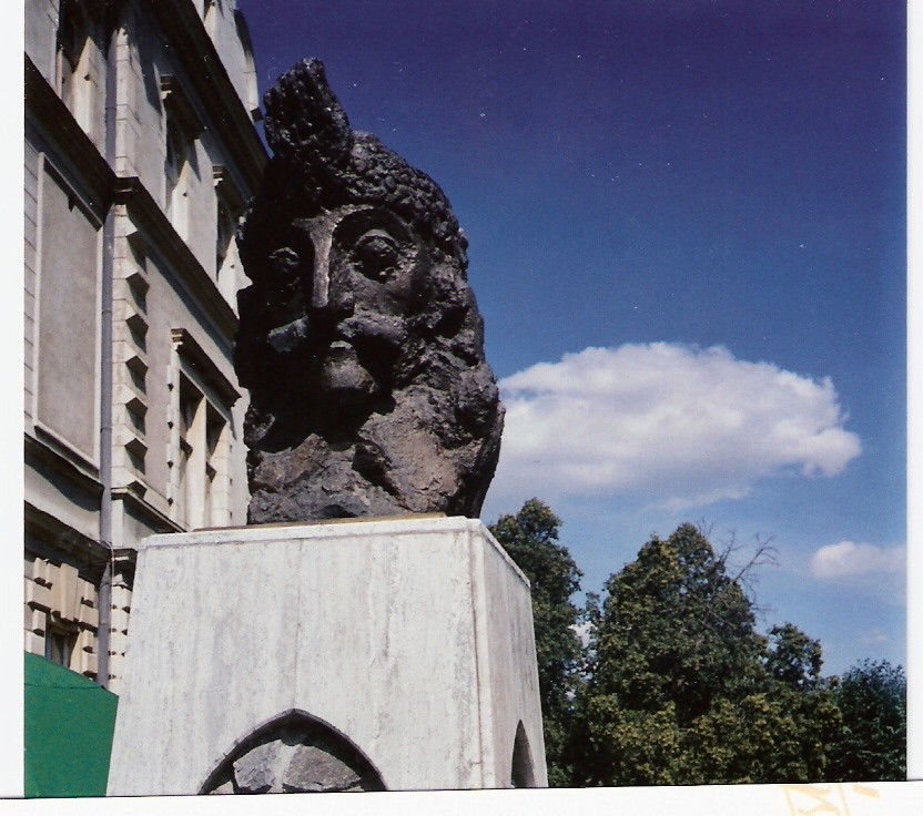 Statue of Vlad Dracula in Sighişoara, Romania